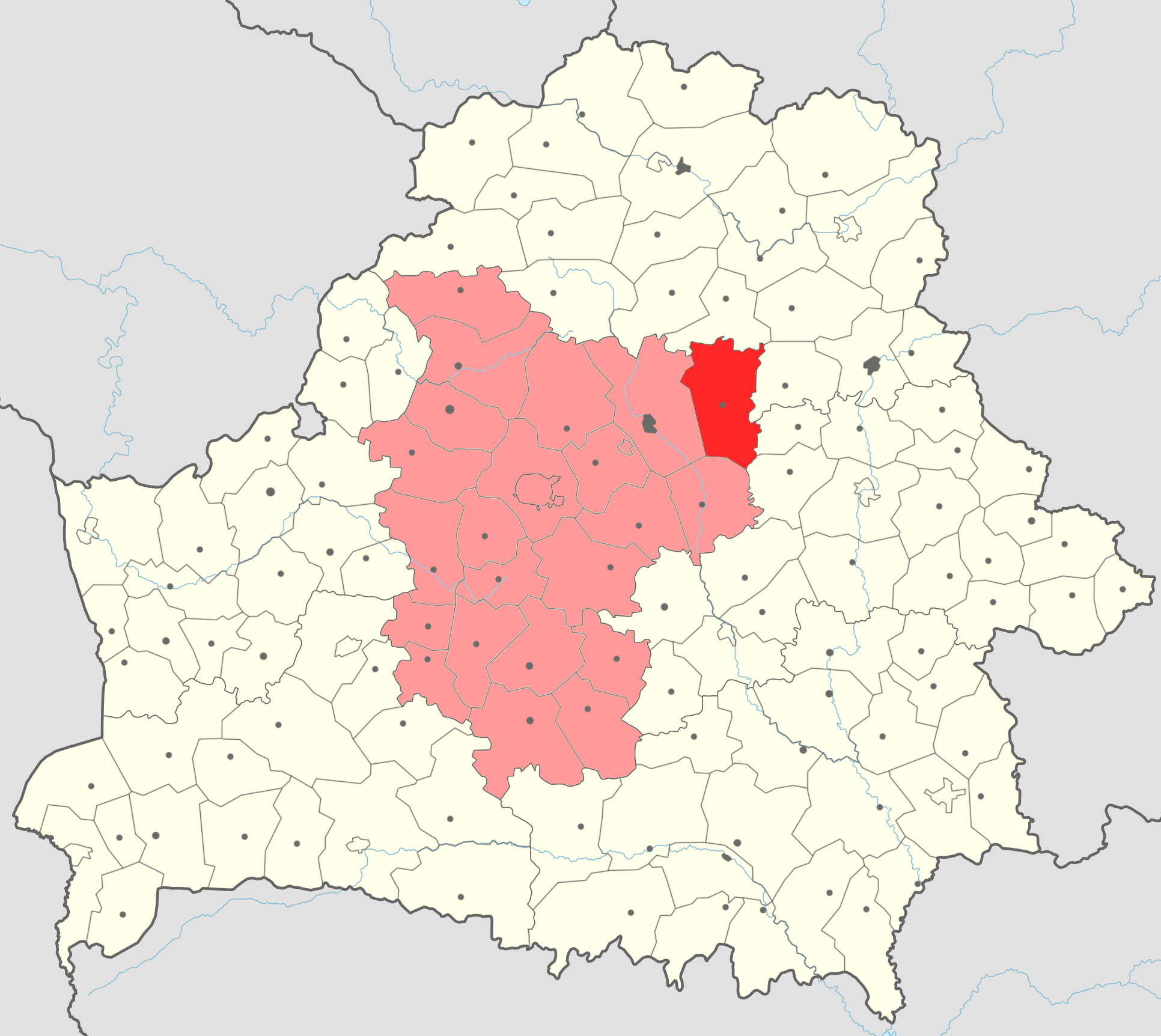 Map of Krupki rayon (in red) with Minsk voblast' (in light red) on the map of Belarus.